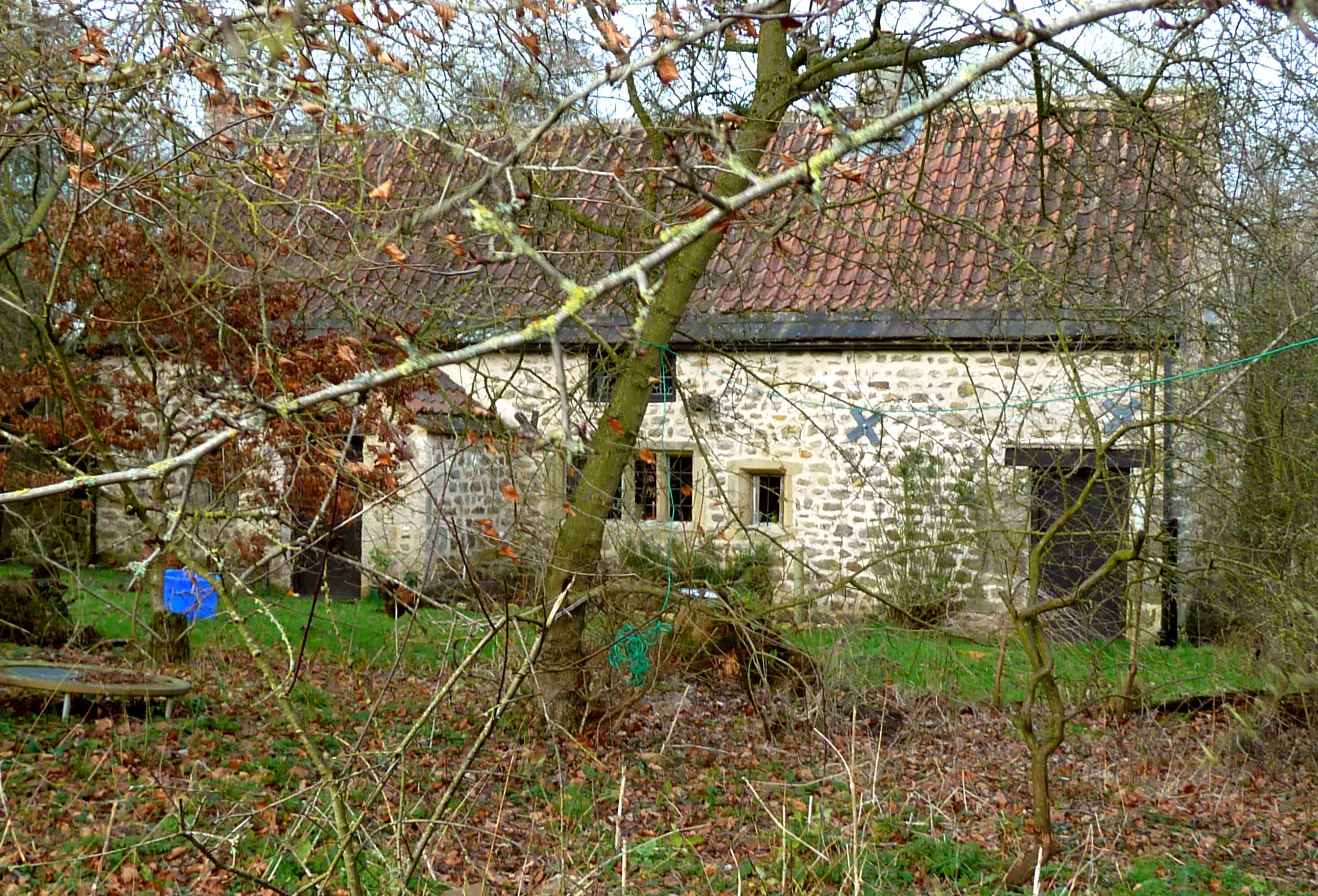 Cow Myers, Site of Special Scientific Interest (SSSI), between Ripon and Kirkby Malzeard, North Yorkshire, England. This site consists of fen (wetland with reeds) encircled by carr (wetland with trees). There is no public access or vehicle access to this site. Showing Witch-of-the-Woods House, a ruin near to the site, but not in it. There is no public access to this ruin.